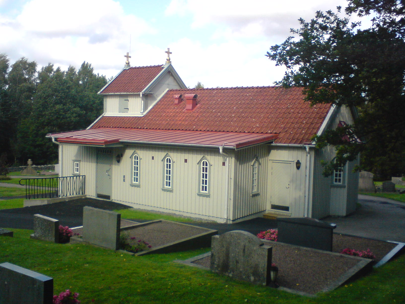 Parish church of Rödbo parish from the south west. Rödbo församlingskyrka från sydväst.